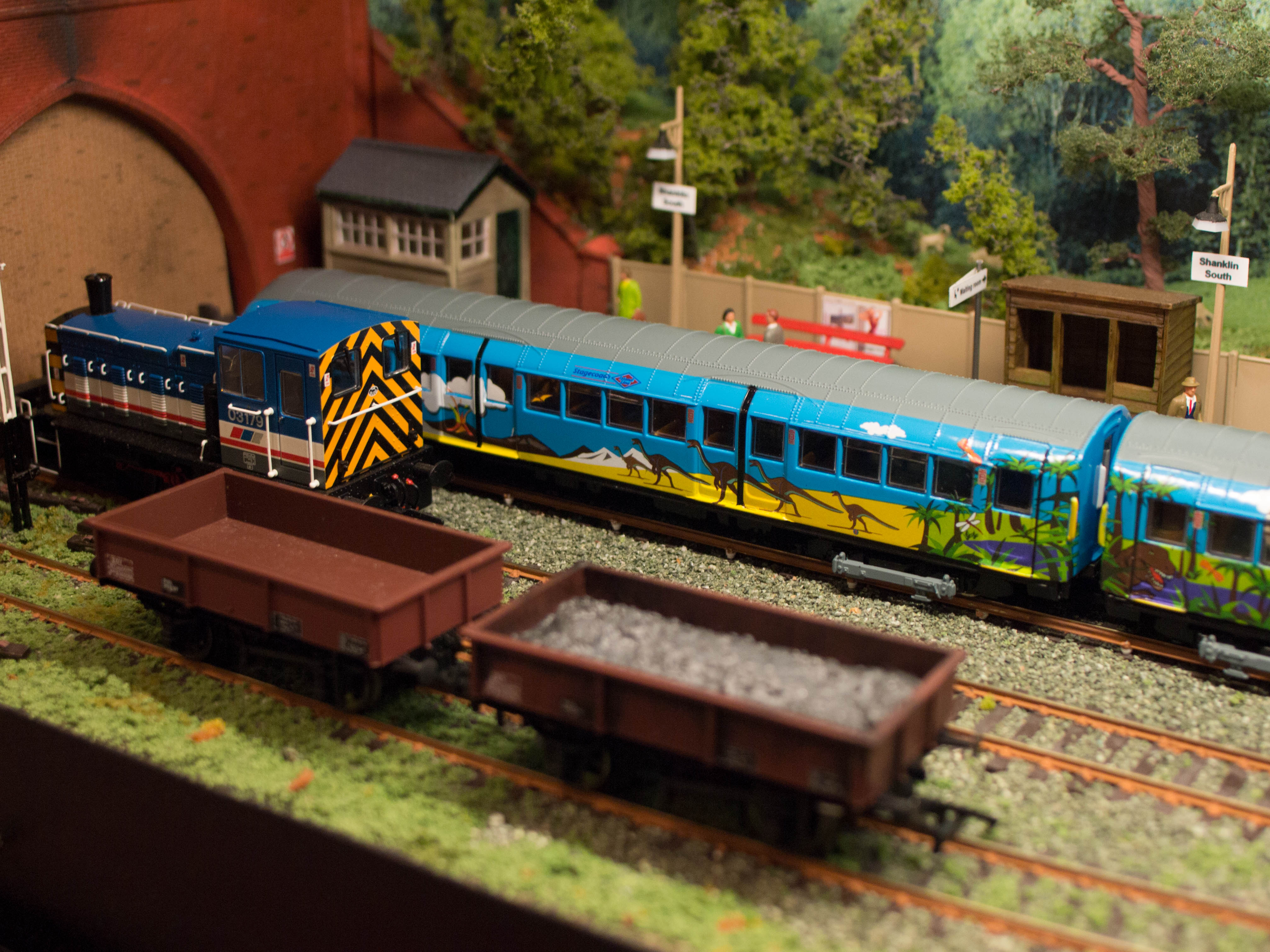 Acton Depot open day, March 2012